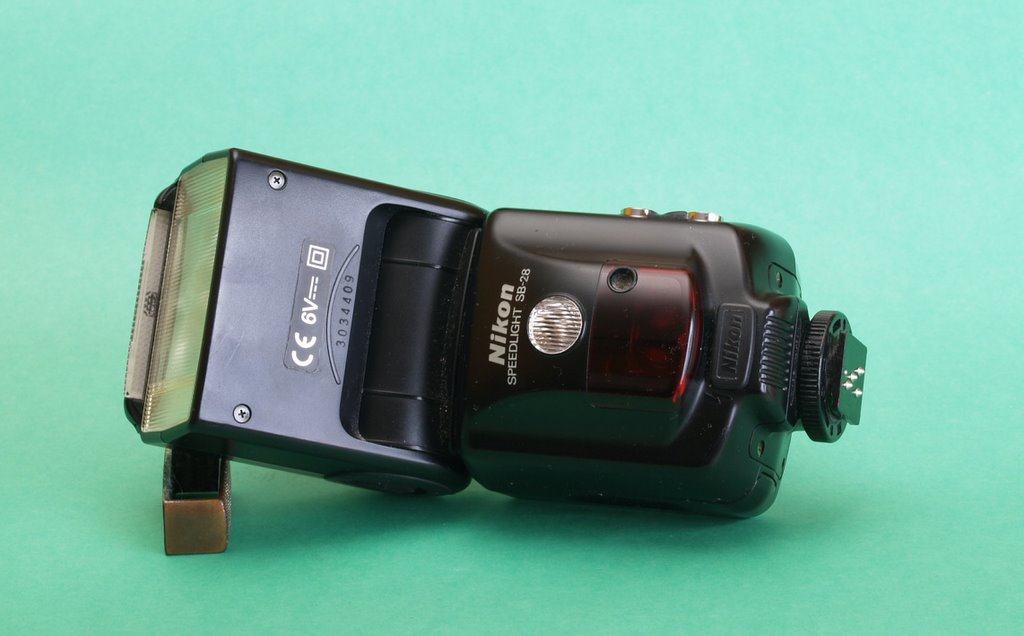 Old Nikon flash SB-28